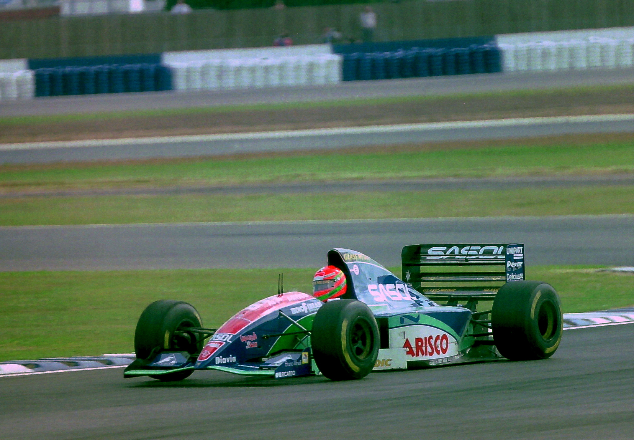 Eddie Irivne - Jordan 194 at the 1994 British Grand Prix